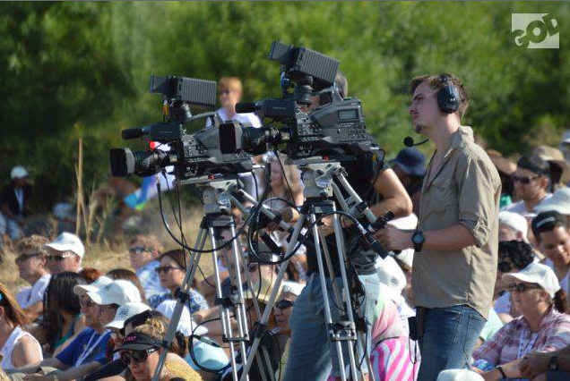 GOD TV filming on location in Israel.